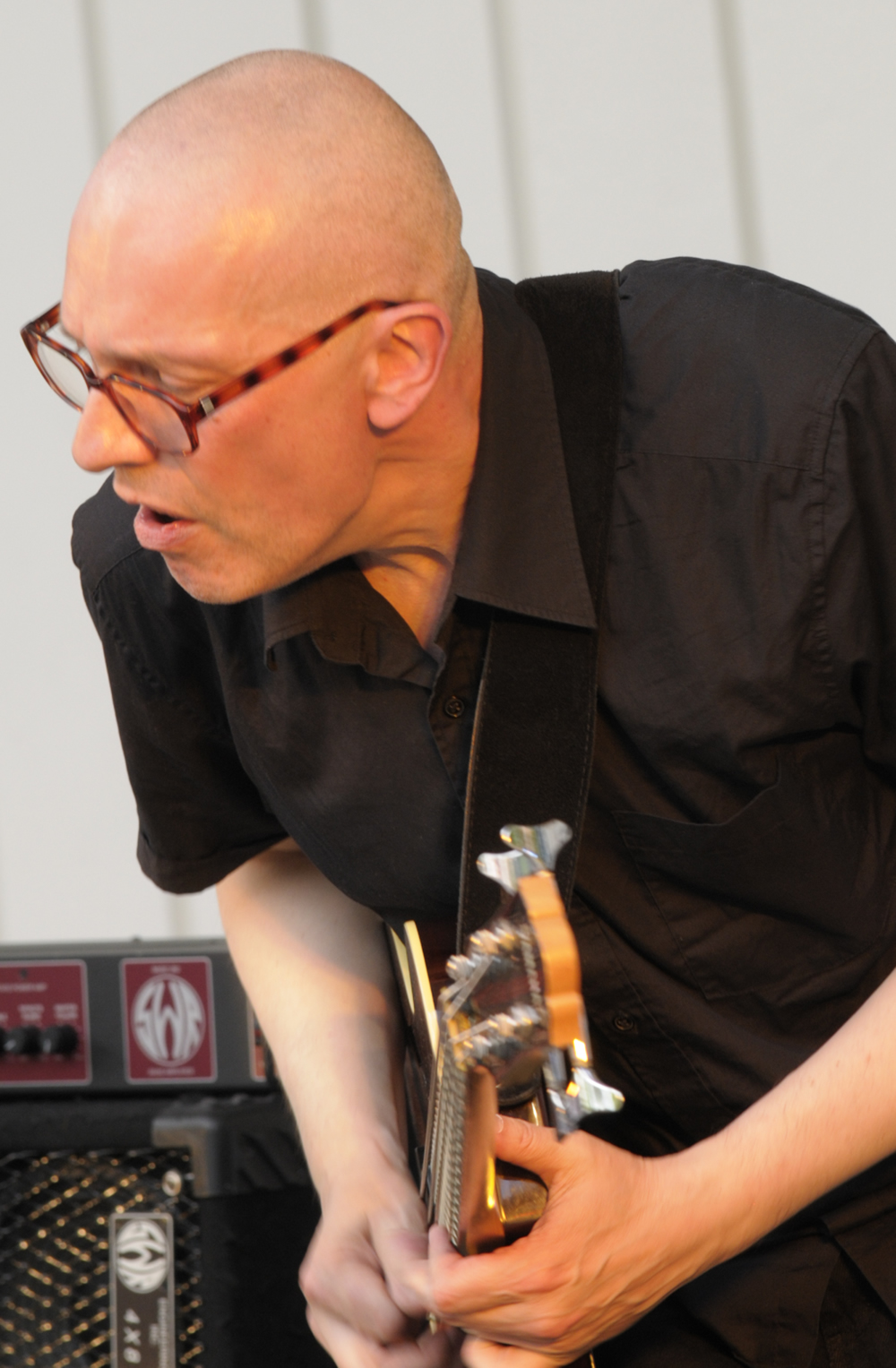 Hartmut Kracht on guitar